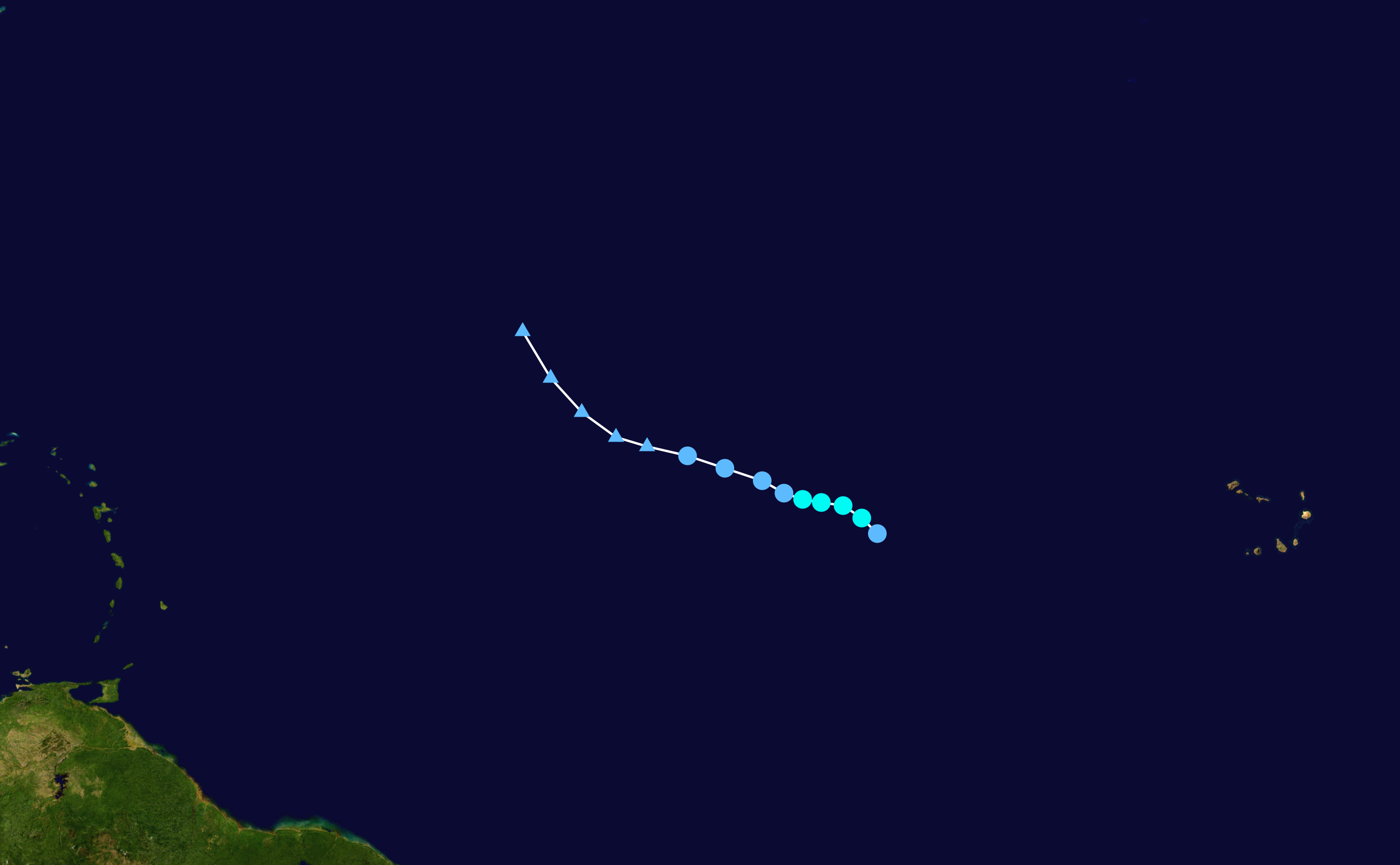 Track map of Tropical Storm Nana of the 2008 Atlantic hurricane season. The points show the location of the storm at 6-hour intervals. The colour represents the storm's maximum sustained wind speeds as classified in the Saffir–Simpson scale (see below), and the shape of the data points represent the nature of the storm, according to the legend below. Saffir–Simpson scale Tropical depression≤38 mph≤62 km/h Category 3111–129 mph178–208 km/h Tropical storm39–73 mph63–118 km/h Category 4130–156 mph209–251 km/h Category 174–95 mph119–153 km/h Category 5≥157 mph≥252 km/h Category 296–110 mph154–177 km/h Unknown Storm type Tropical cyclone Subtropical cyclone Extratropical cyclone / Remnant low / Tropical disturbance / Monsoon depression